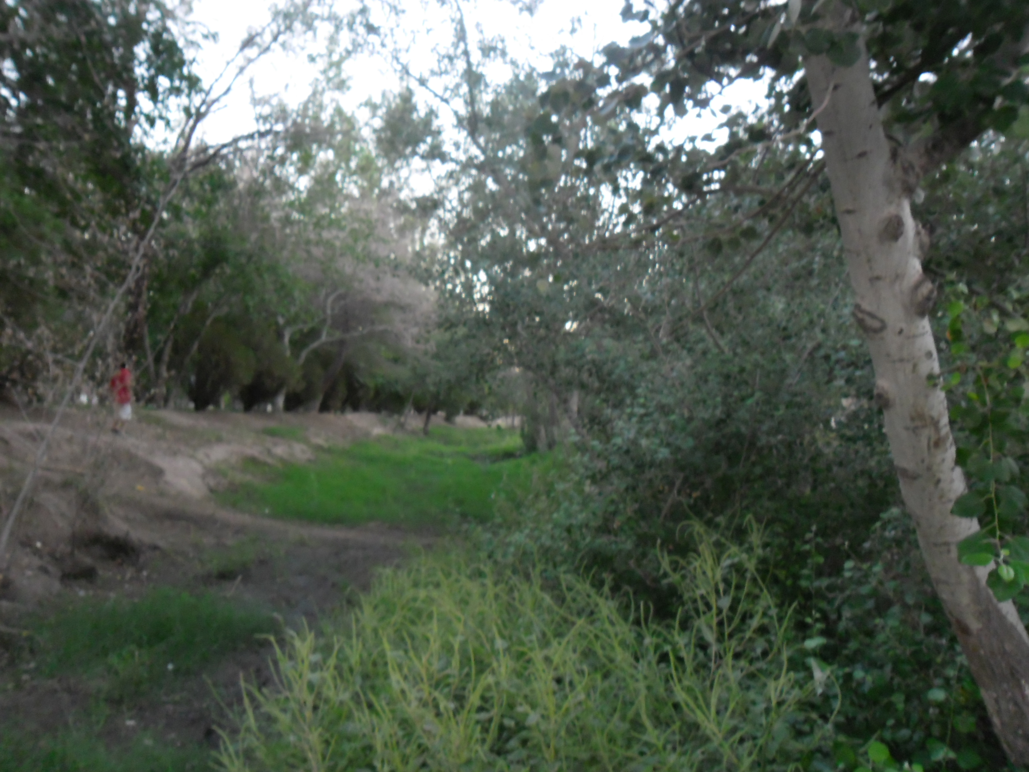 Chamizal Park, Juarez